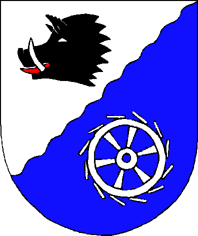 Coat of arms of the municipality Techelsdorf in Schleswig-Holstein, Germany.